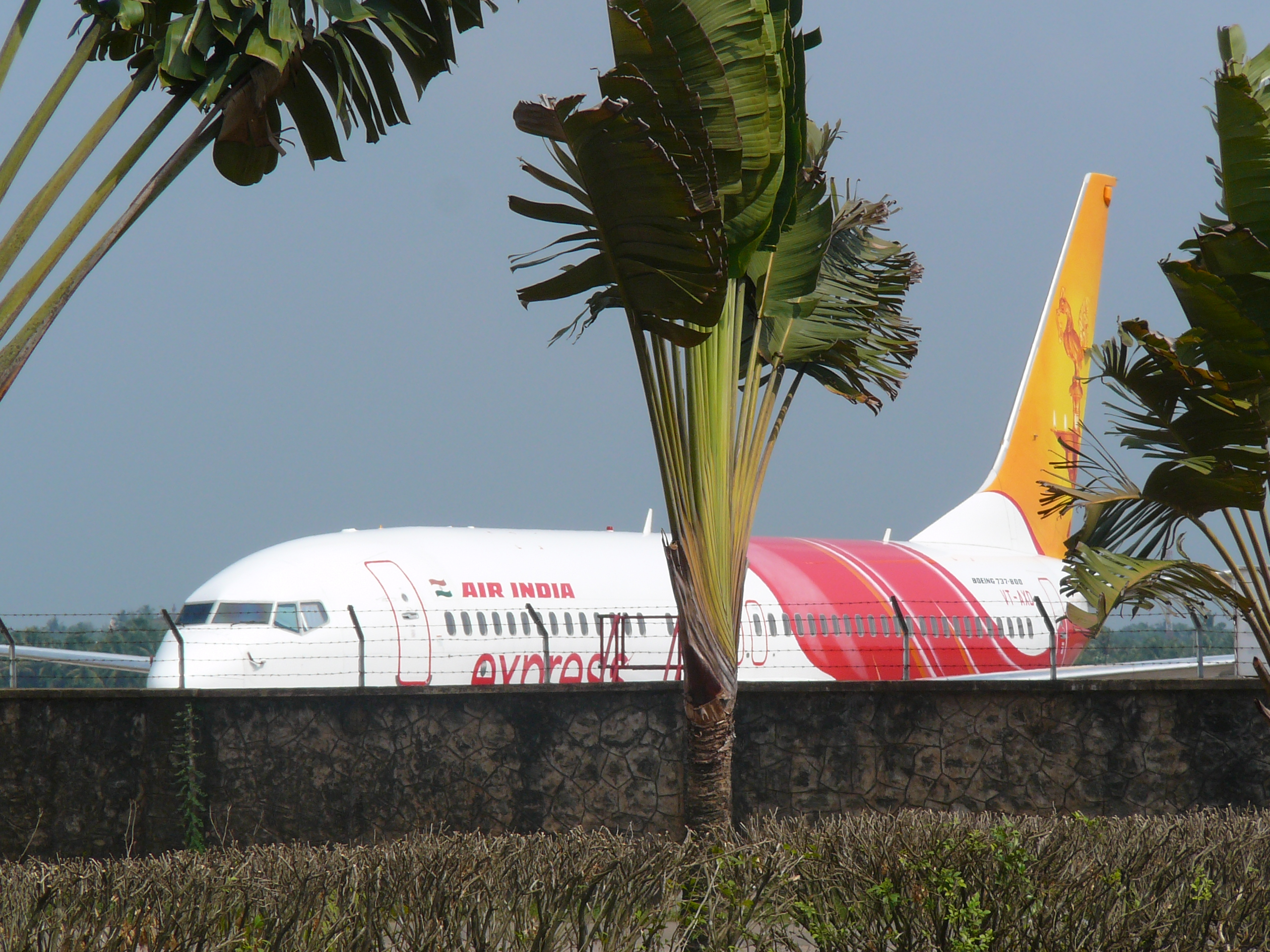 An Air India Express airplane in Cochin International Airport, Nedumbassery (COK). Uploaded by Reubentg (talk)